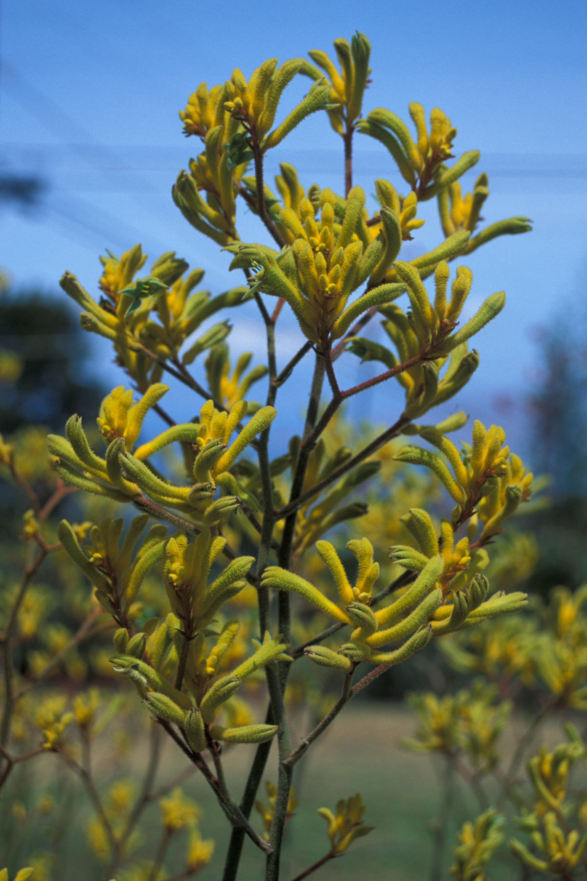 Anigozanthos flavidus (flowers). Location: Maui, Kula Experiment Station